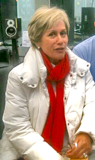 New Zealand soprano, Dame Kiri Te Kanawa, on November 1, 2011 (cropped from larger photo)